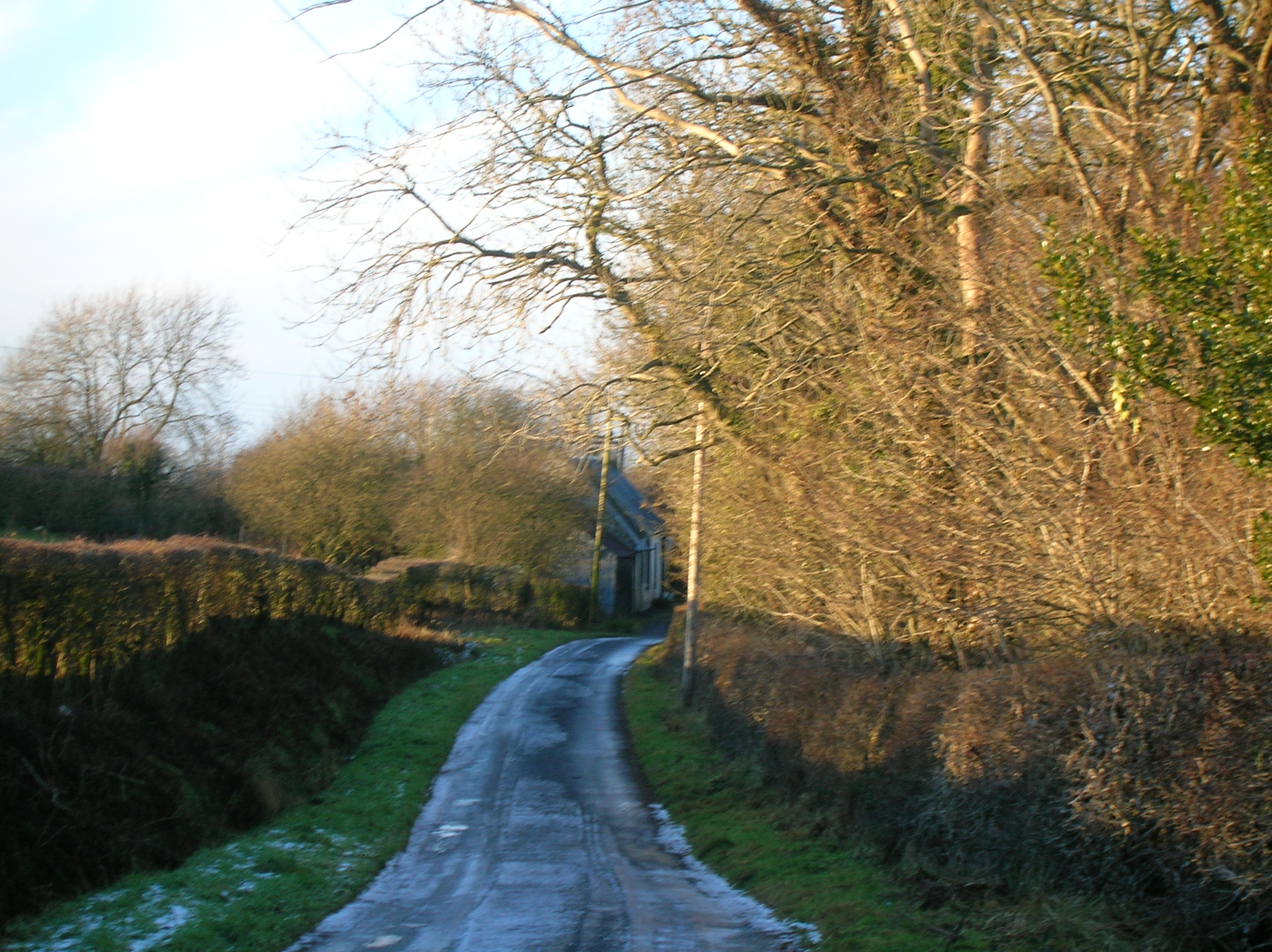 Ladebrae cottage from near the site of Loch Brown. Lade to the right. Ladeside, Crosshands, East Ayrshire, Scotland.